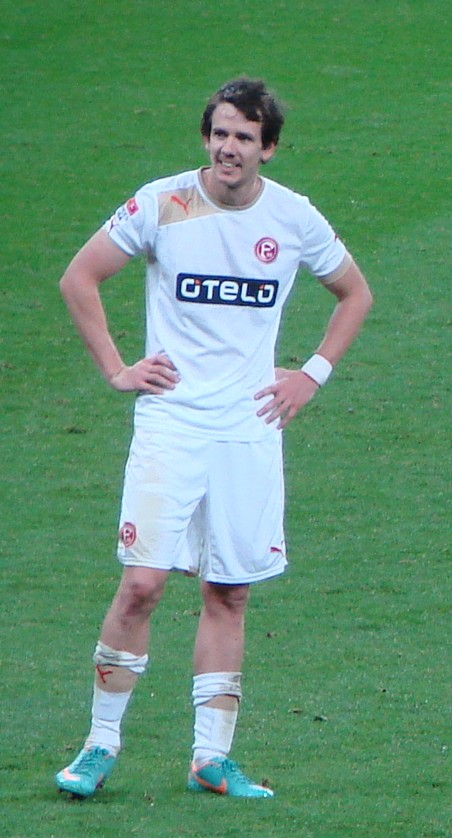 Robbie Kruse - australian footballer - playing for Fortuna Düsseldorf in a Bundesliga away match against Bayer 04 Leverkusen on the 4th of November, 2012.